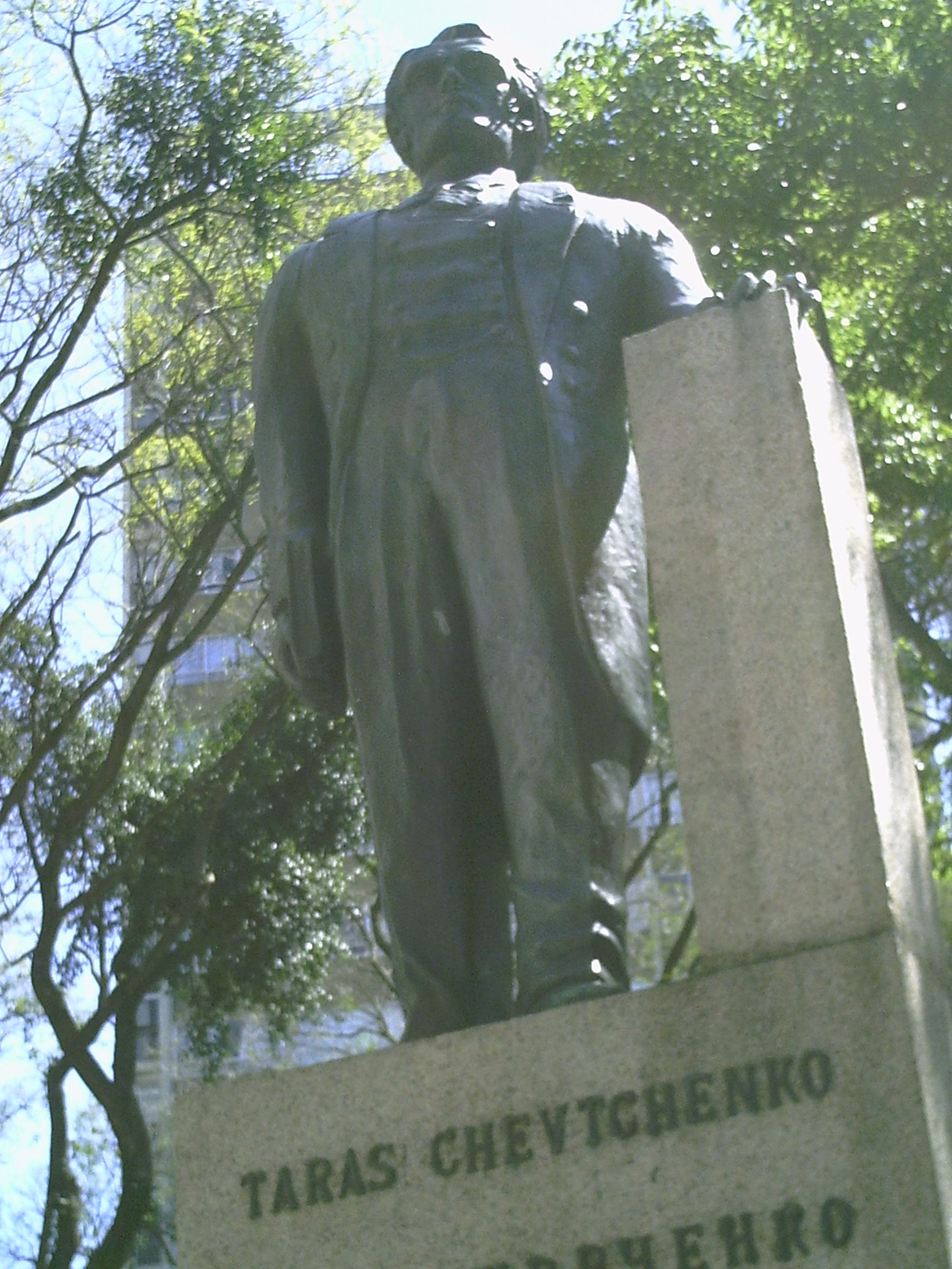 Statue of Taras Shevchenko in Curitiba, Paraná, Brazil.